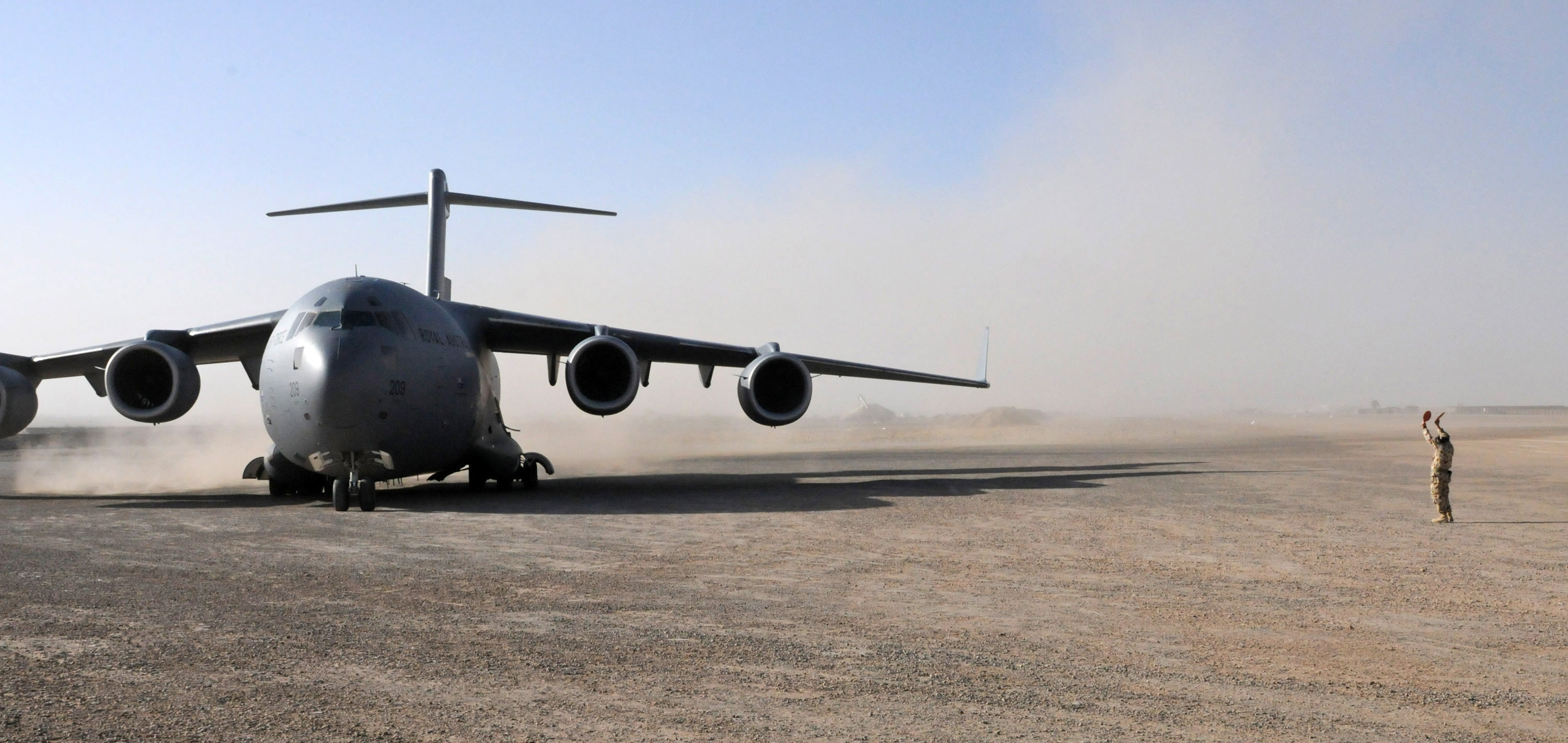 Sgt. Barry Williams, Combat Support Unit, guides a C-17 Globemaster airplane into the parking area at Multi National Base Tarin Kot, Afghanistan, 05 Dec. 2010. Williams works with a small Royal Australian Air Force air movement team to load and unload all Australian aircraft that touch down at Tarin Kot